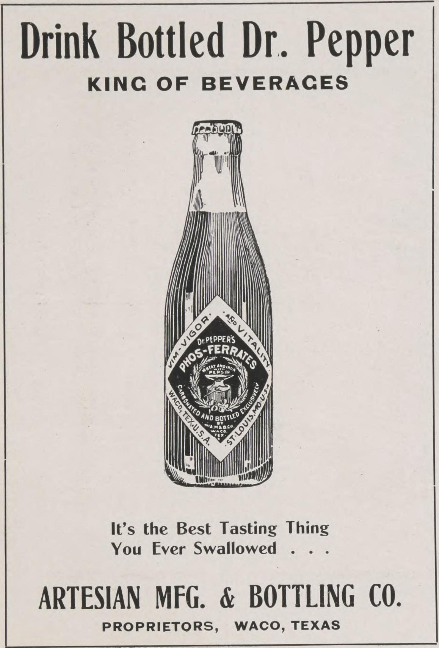 The Horned Frog (1906) Vol. 3; 189 pgs.